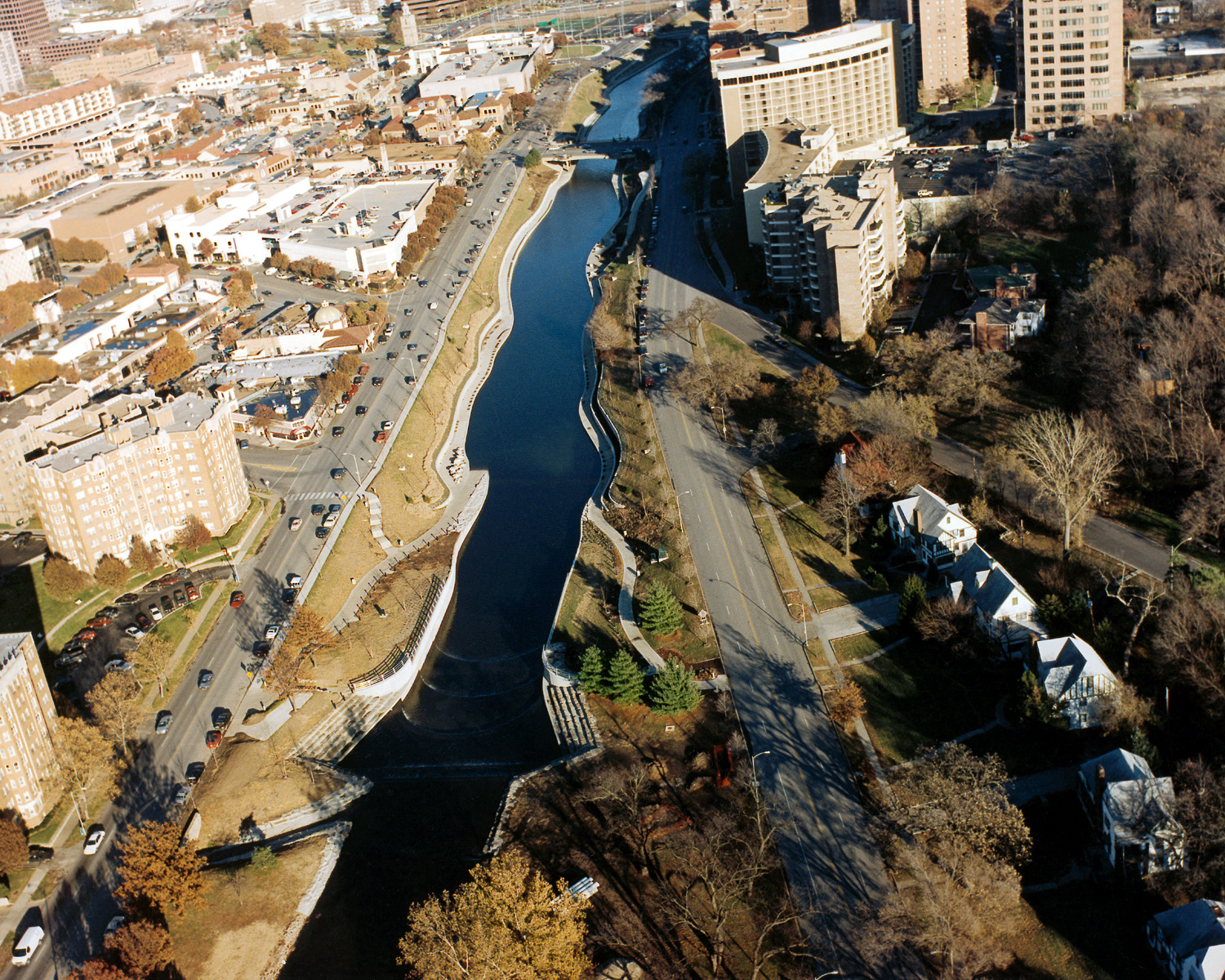 Brush Creek flowing through Kansas City, Missouri, USA. The creek has been excavated and lined with concrete as part of a flood control project by the U.S. Army Corps of Engineers. This photograph appears to be taken in the area of Ward Parkway and Madison Avenue, with the Country Club Plaza visible at left top.